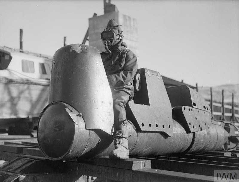 The Commanding officer of the Chariot craft at the controls. Note the Sladen suit and oxygen apparatus